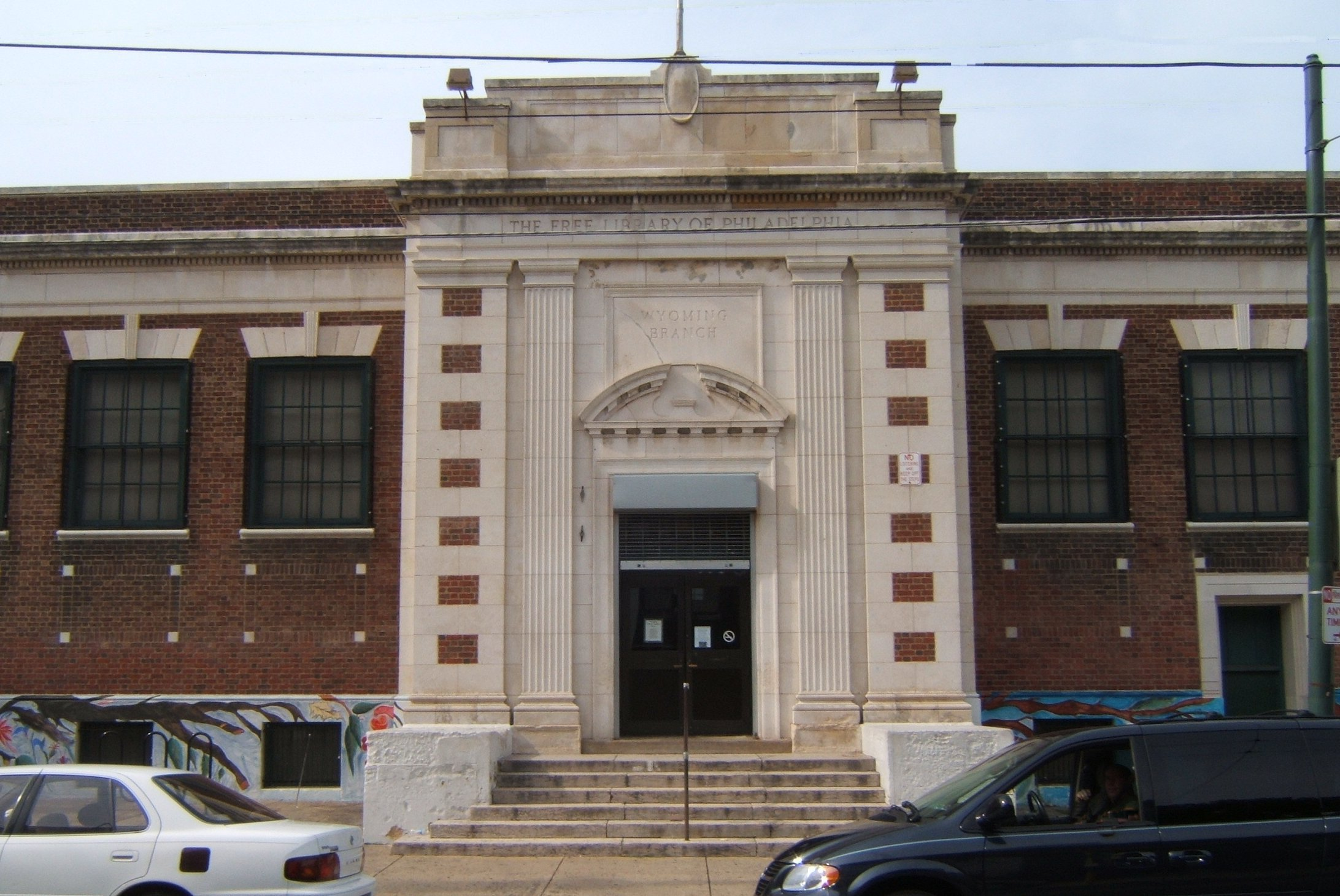 Wyoming Branch, Free Library of Philadelphia - 231 East Wyoming Avenue, Philadelphia PA 19120 - Opened October 29, 1930, the very last Carnegie library in the world.